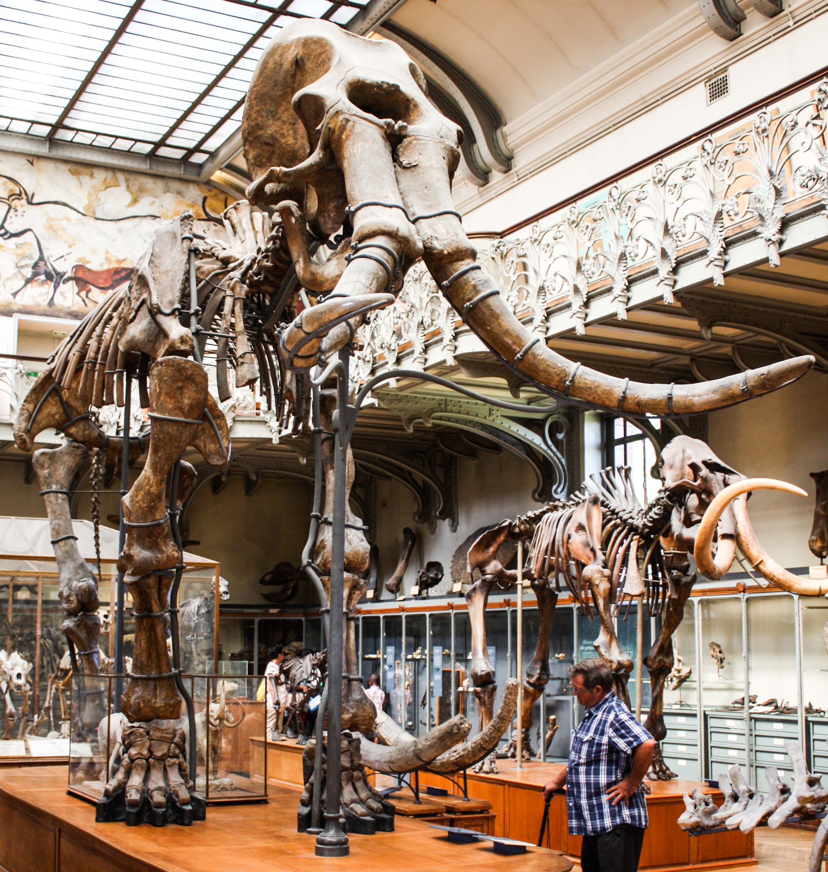 Two mammoth skeletal mounts on exhibit at the French National Museum of Natural History in Paris: a southern mammoth (the big skeleton in the foreground, Mammuthus meridionalis) and a woolly mammoth (the smaller skeleton in the background, Mammuthus primigenius). The big skeleton, the southern mammoth, was found in 1869 in the south of France and is constituted by fully fossilised bone in rock. The smaller one is subfossil bone from a frozen individual found in 1901 in the permafrost of the Lyakhov islands. This skeleton of a frozen woolly mammoth was given in 1912 by the Russian count Alexander Stenbock-Fermor to the Natural History Museum of France and is the only specimen that left Russia before the Russian Revolution broke out in 1917. Some parts of the skin had been preserved and are on exhibit in a nearby display cabinet. After the flesh was ripped off, the skeleton was mounted and exhibited as it is seen here as of 1958.